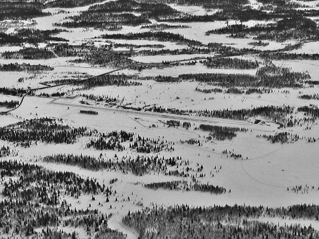 Picture taken by myself April 10th 2004.